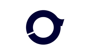 Flag of Otama Fukushima